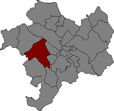 Location of Sant Martí Sarroca in Alt Penedès